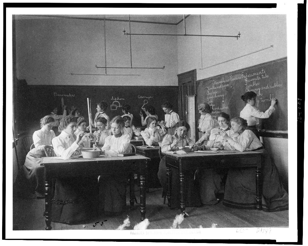 Title: Group of young women performing atmospheric pressure experiments while studying science in normal school, Washington, D.C. Abstract/medium: 1 photoprint : cyanotype.